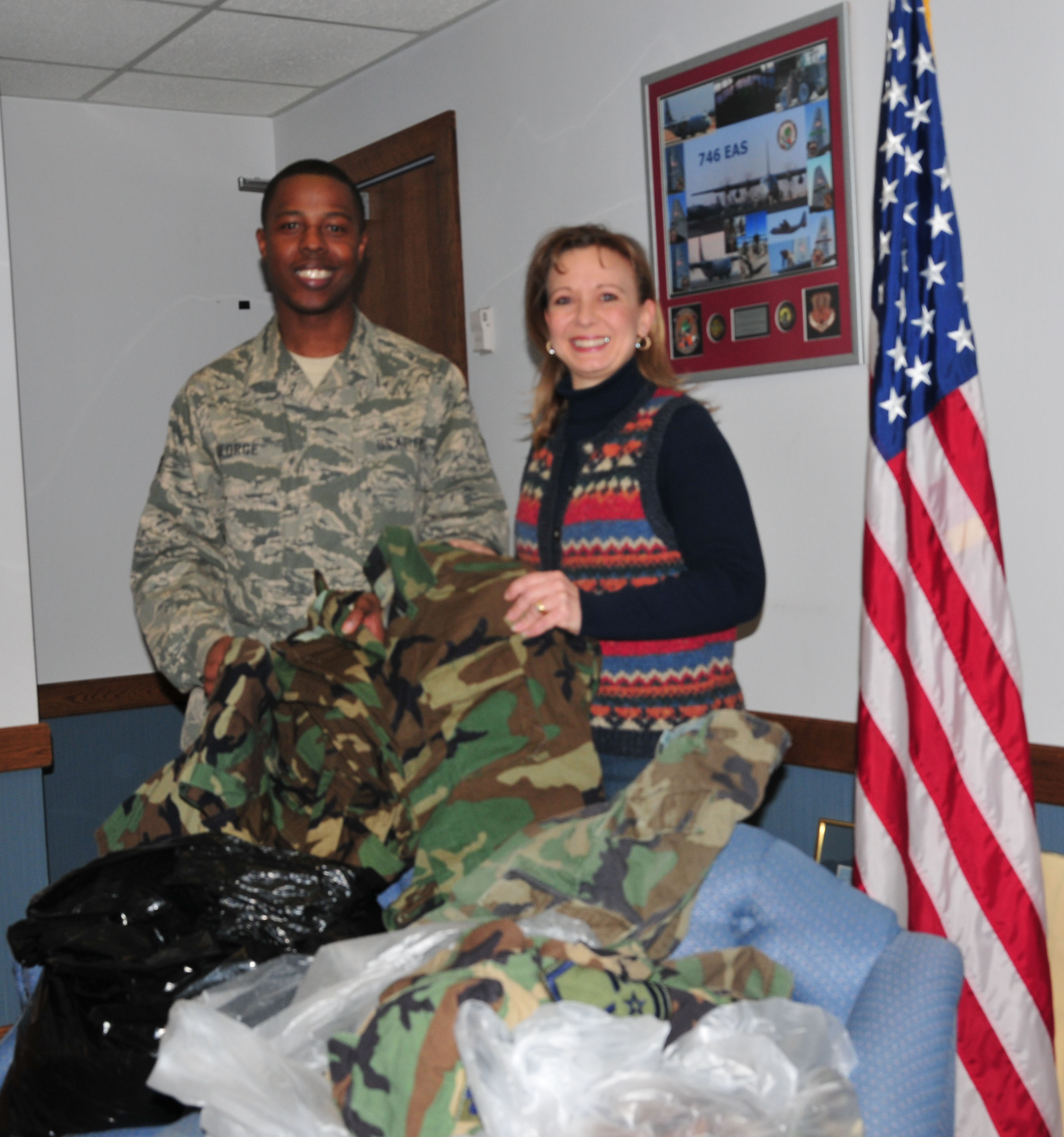 Senior Airmen Christopher George of the 914 Airlift Wing Raising 6 Organization presents 1st Lt. Tina Warnock of the Civil Air Patrol, TAC Composite Squadron with surplus military uniforms donated by unit members.The CAP was on base for the Western New York Group Leadership Development school that brings over 100 CAP Cadets from units all over New York State to Niagara for a full weekend of leadership classes and exercises. 1st Lt. Warnock stated that cadets as young as 12 years old join the Civil Air Patrol, which is an auxiliary of the Air Force and are required to buy their own uniforms. Any donation of uniform items is appreciated as some do not have the resources to purchase their own uniforms. ( U.S Air Force photo by Staff Sgt. Everett Myrick)